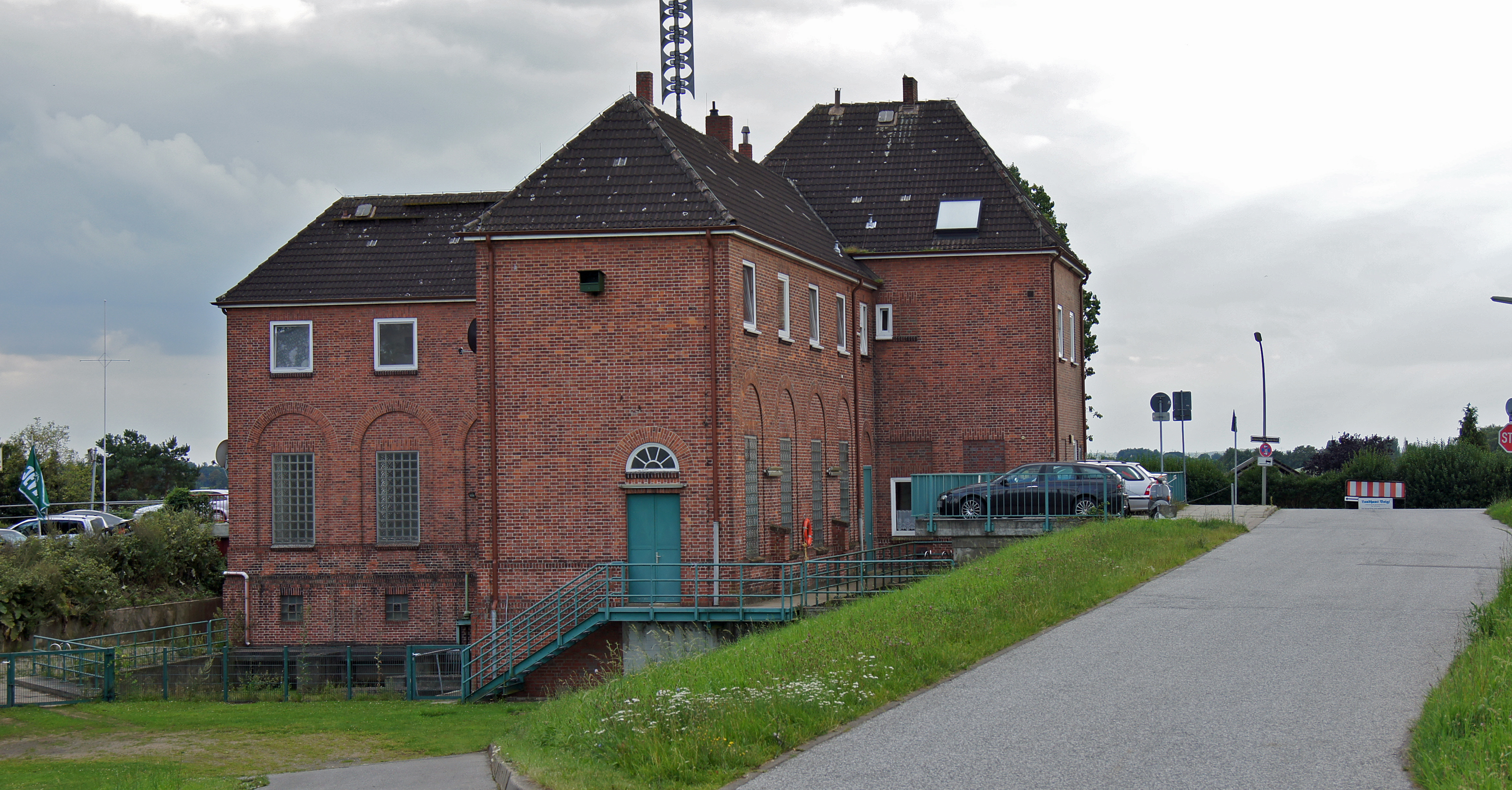 Hamburg (Ochsenwerder), Germany: Pump and drainage works (1922-24)